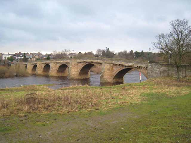 Corbridge Bridge This fine old seven arch bridge over the river Tyne was built in 1674, replacing an earlier bridge. It was the only bridge on the entire length of the River Tyne to survive the great floods of 1771.